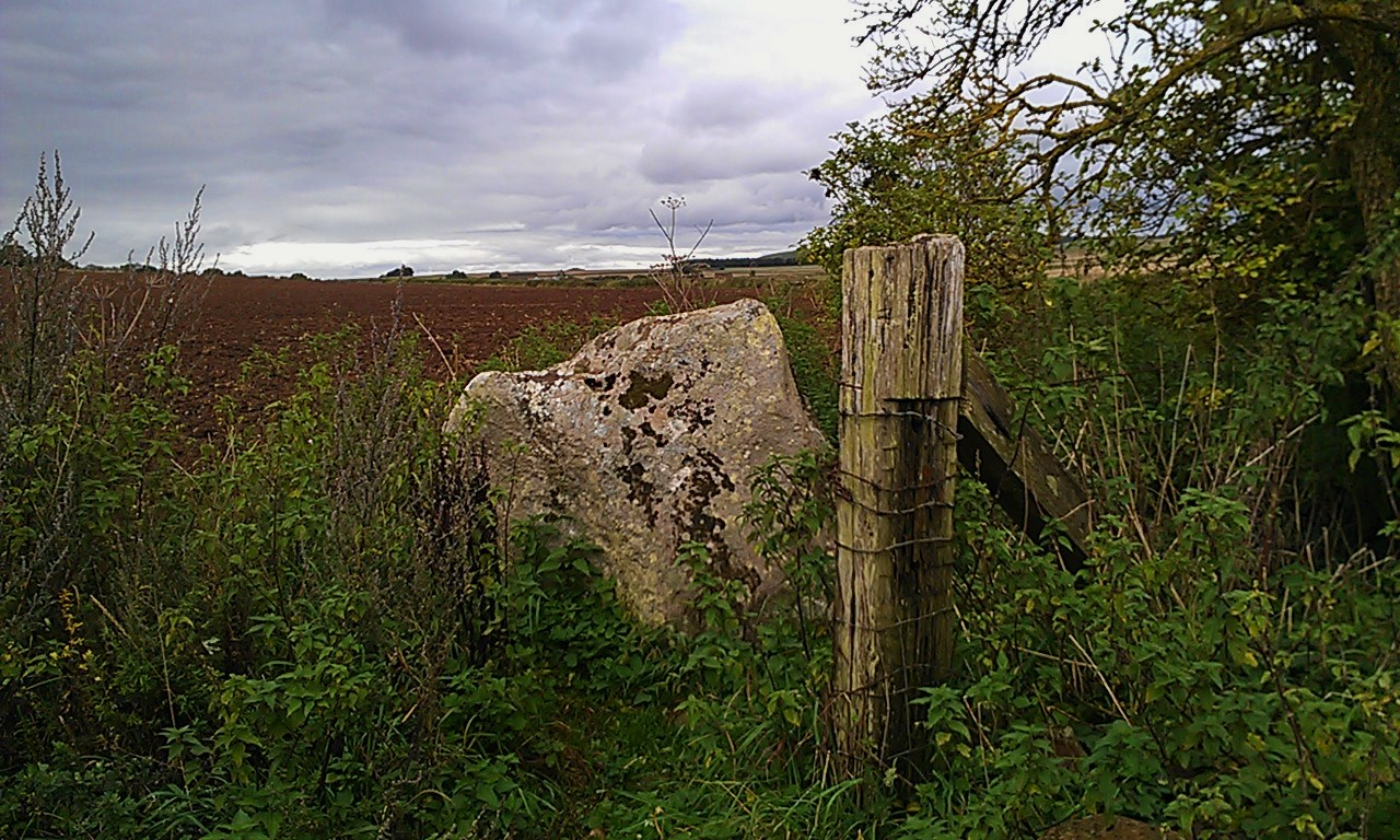 The only remaining megalith of Falkner's Circle, located near to Avebury, Wiltshire.